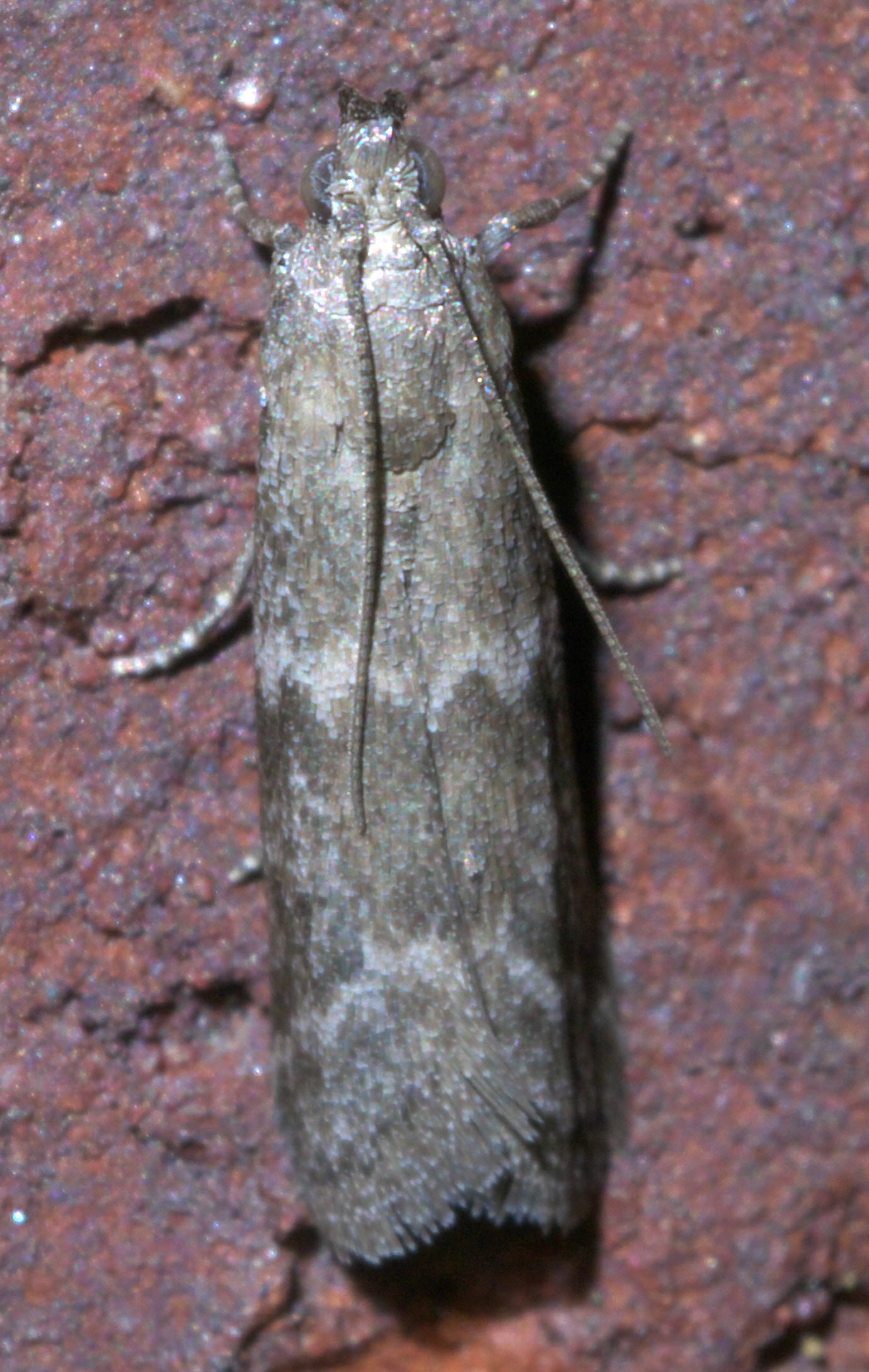 Eurythmia angulella, Hodges #6032, ID Confidence: 88